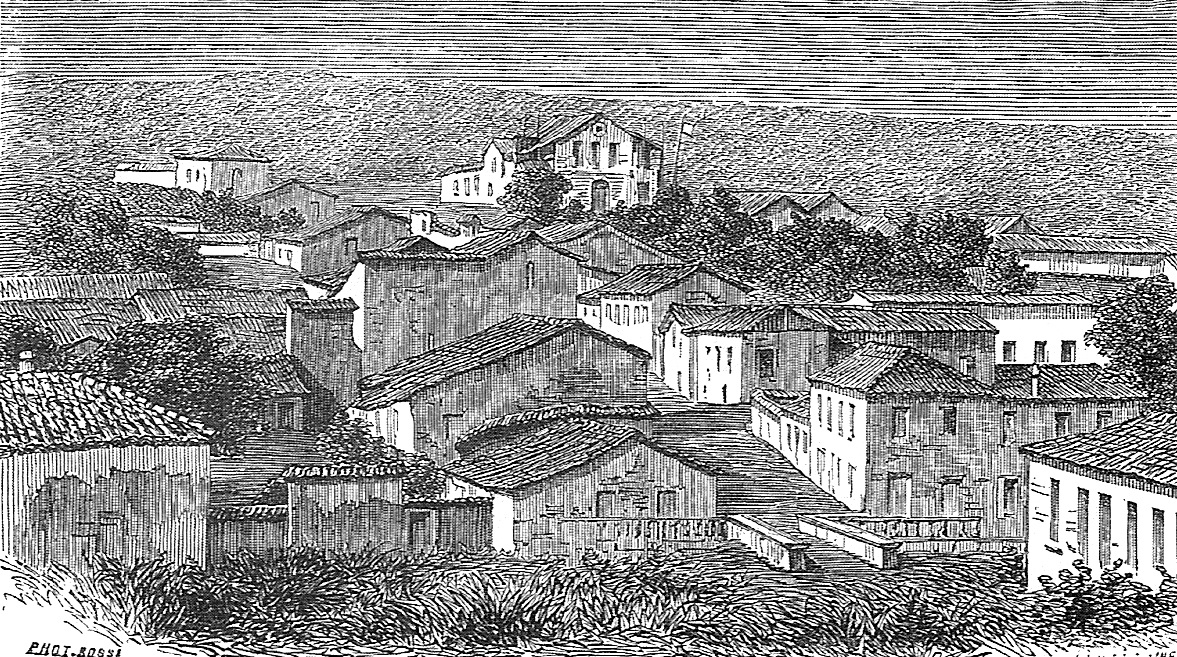 Engraving of a view of Diamantino (Mato Grosso, Brazil), in 1863.